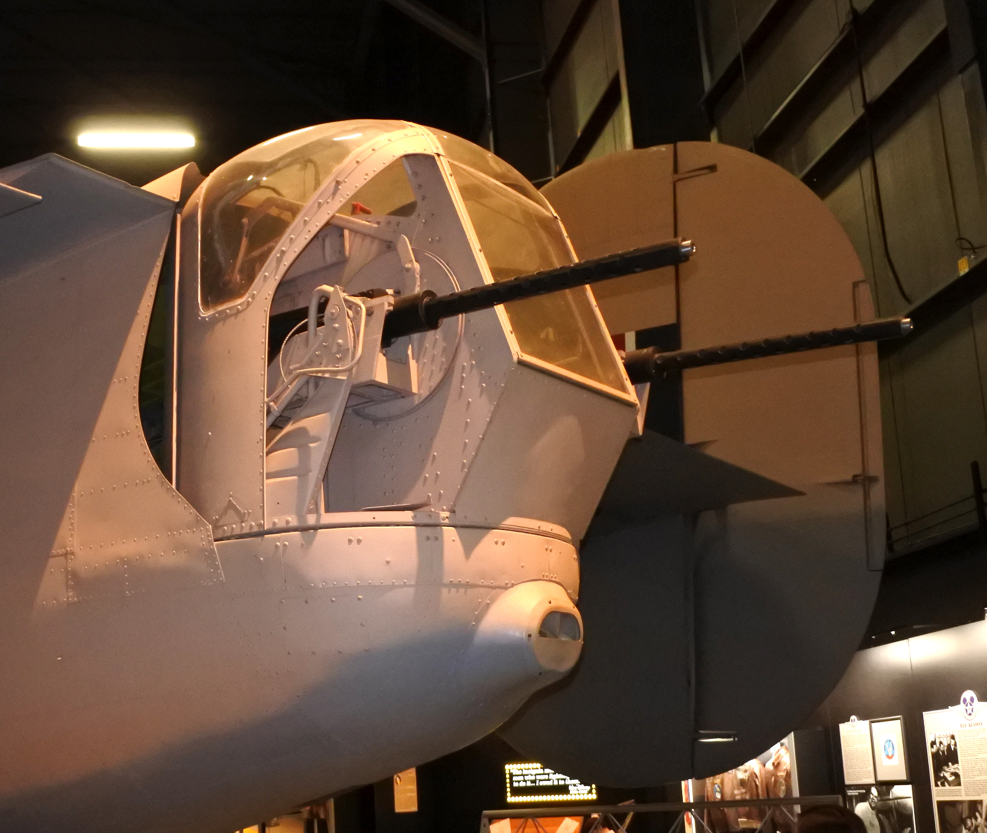 B-24D tail guns at the National Museum of the United States Air Force.